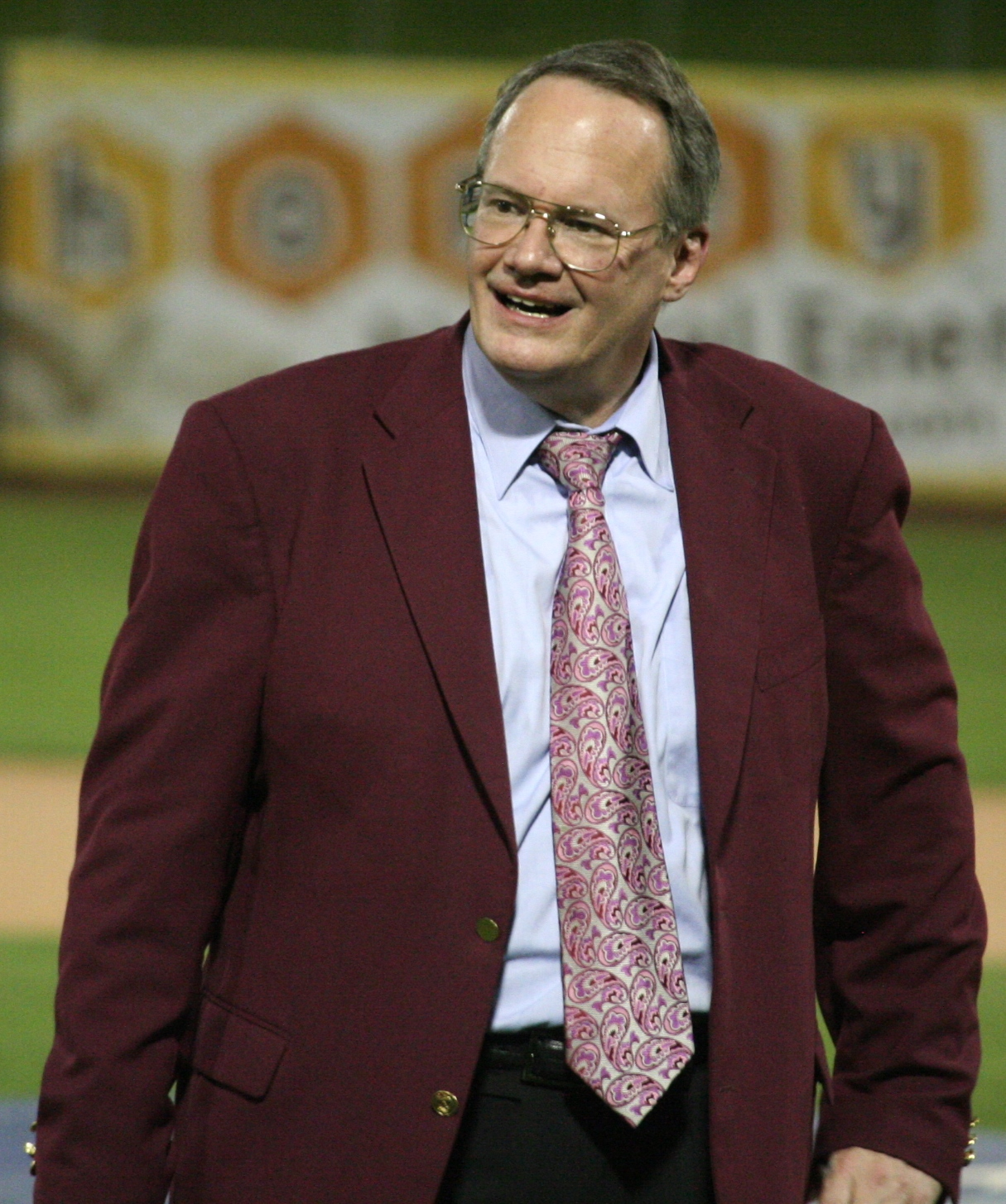 This image shows professional wrestling personality Jim Cornette at a Global Force Wrestling (GFW) show in June 2015.